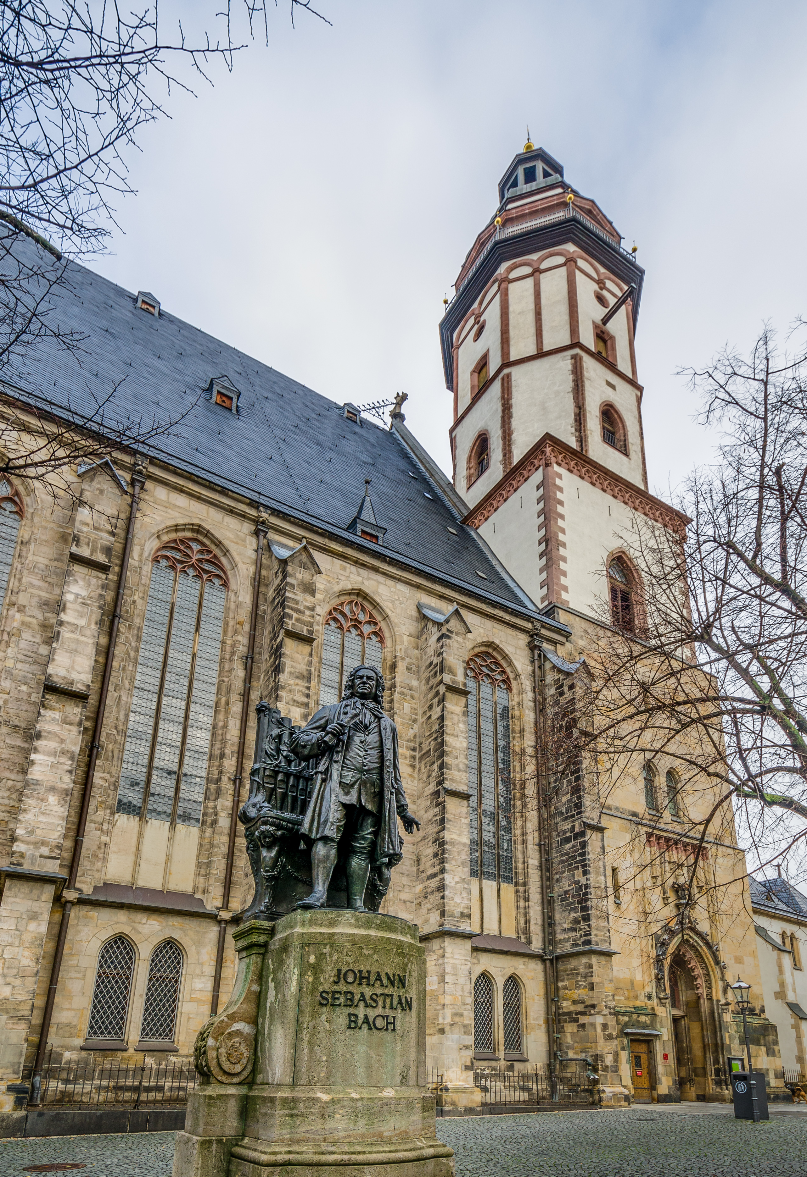 New Bach monument at the Thomas Church in Leipzig